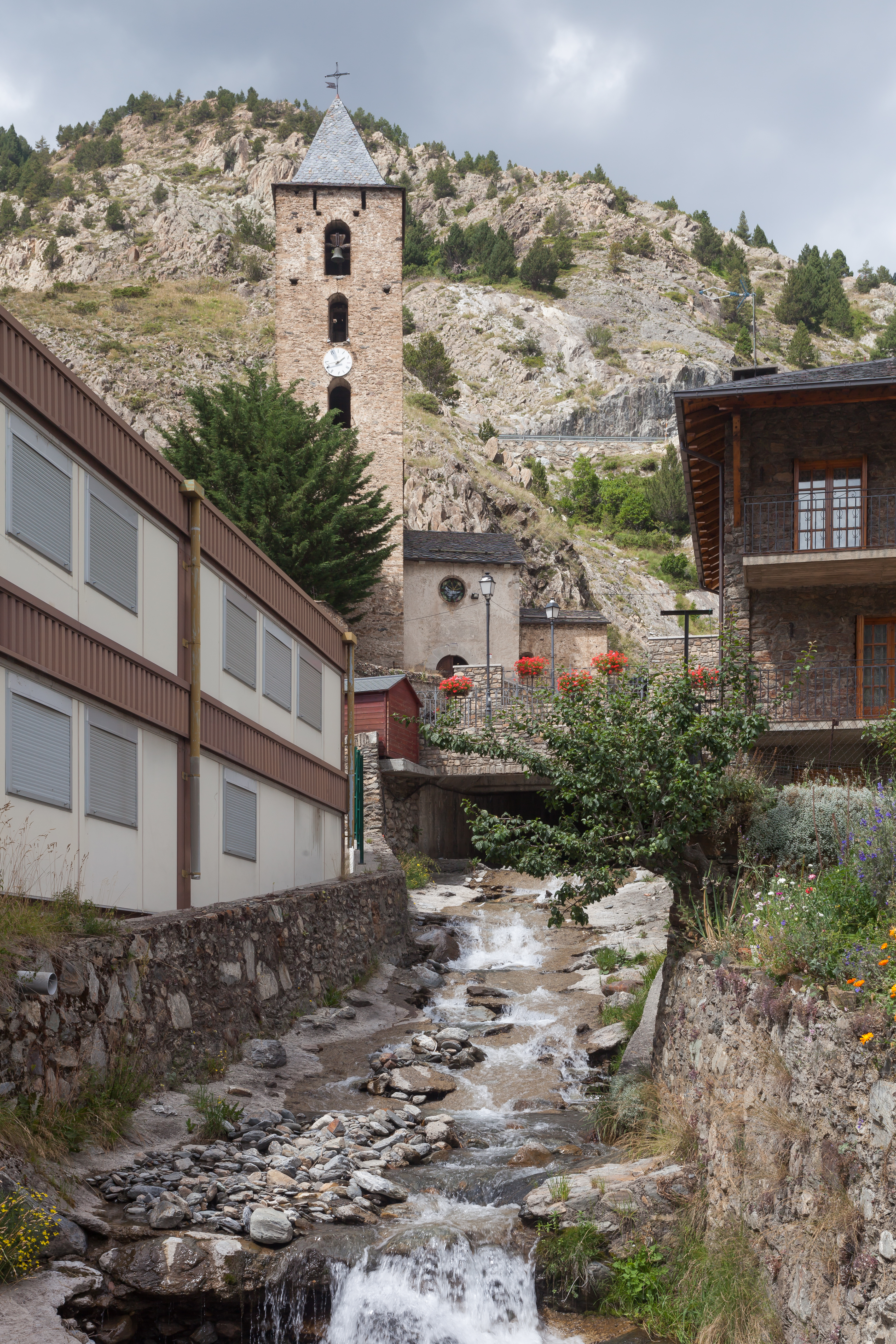 River in Canillo with the chuech of Sant Serni at background. Andorra.